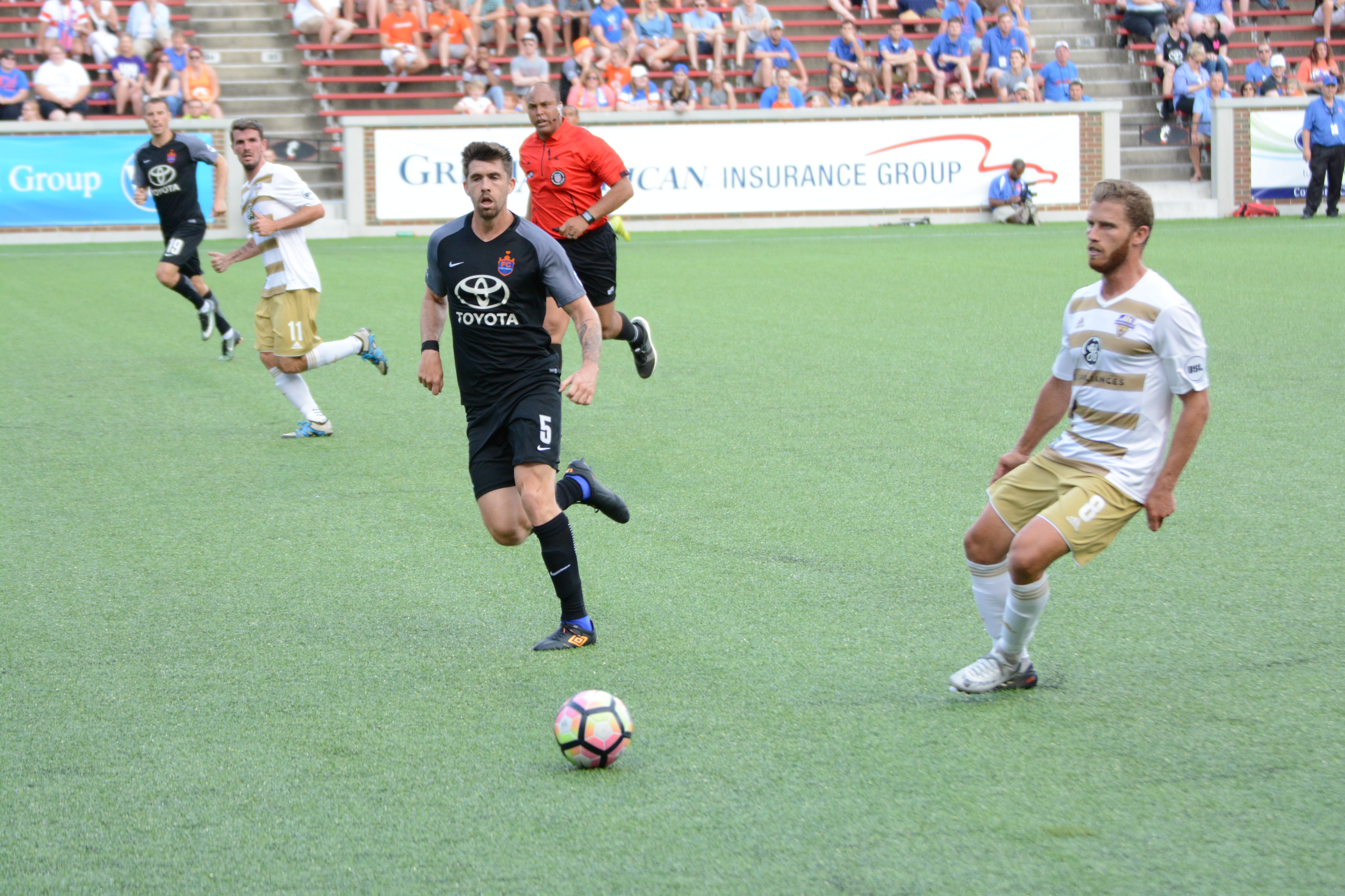 Aodhan Quinn, Guy Abend Taken at a Lamar Hunt U.S. Open Cup match between FC Cincinnati and Louisville City FC at Nippert Stadium in Cincinnati, Ohio on May 31, 2017.